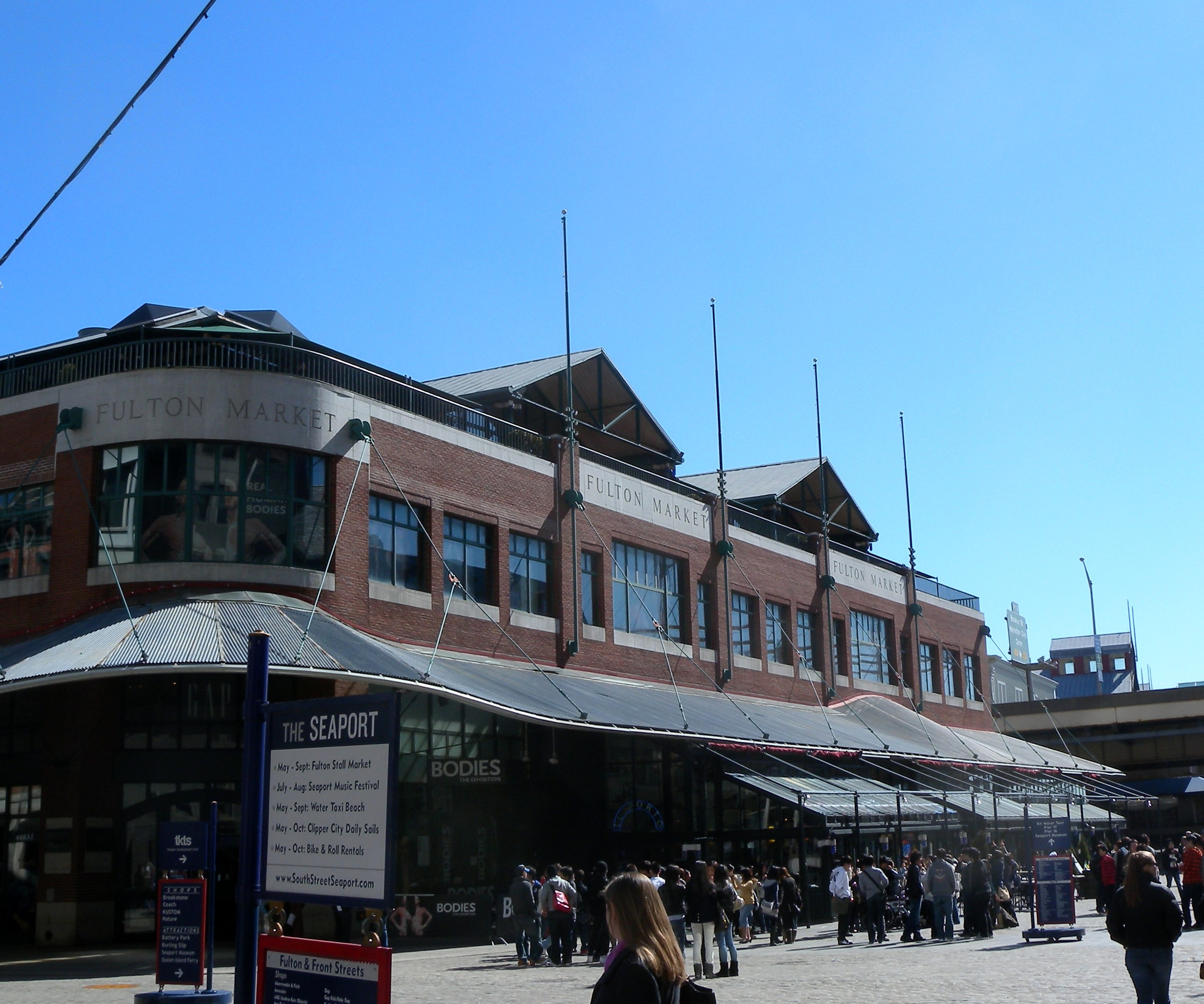 Looking east across Fulton Street at Fulton Market on a sunny midday.